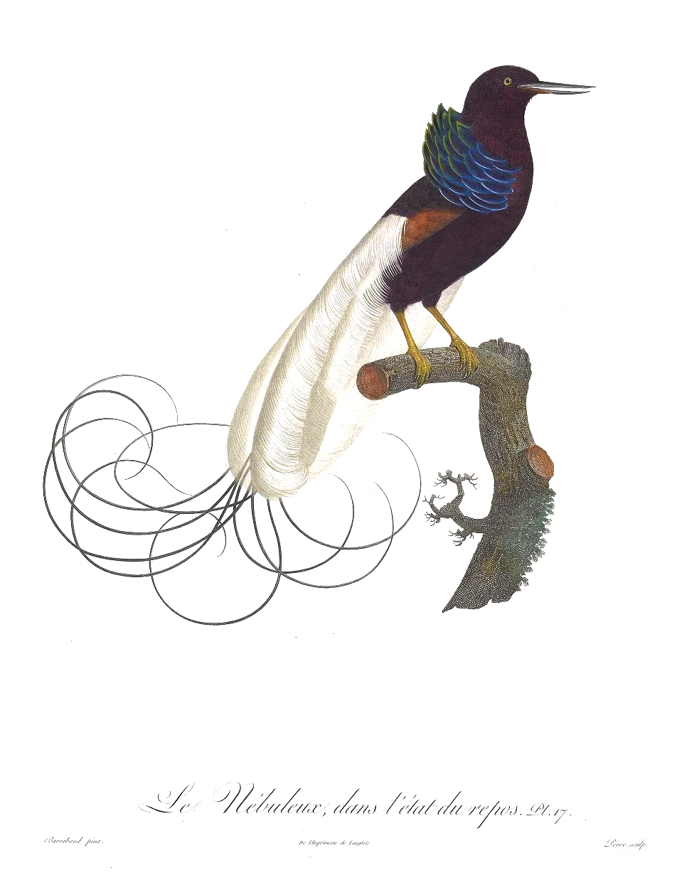 Plate 17. Barraband's unidentified black-breasted 12-wired bird of paradise.[1]